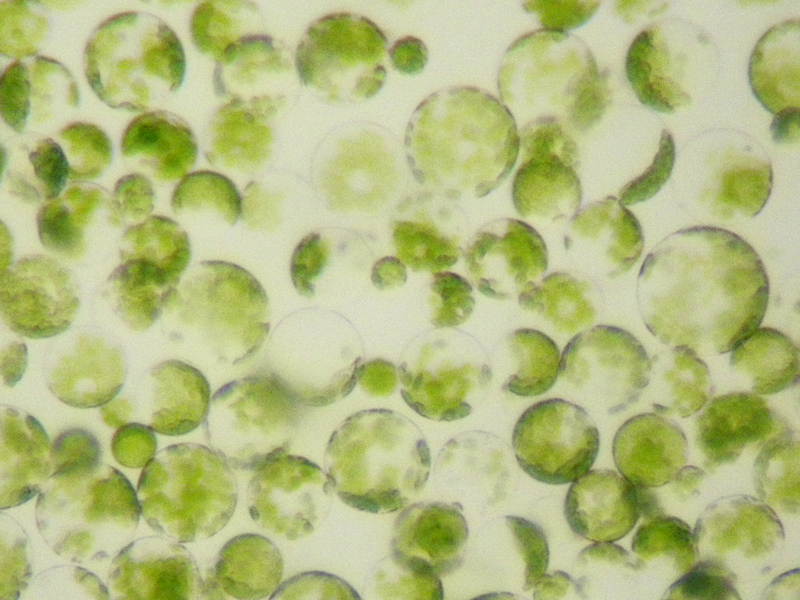 Protoplast solution. Cells of Petunia sp. leaves were treated with cellulases and pectinases. Photo was taken through the eye-piece of a microscope (10x object lense, 10x ocular).